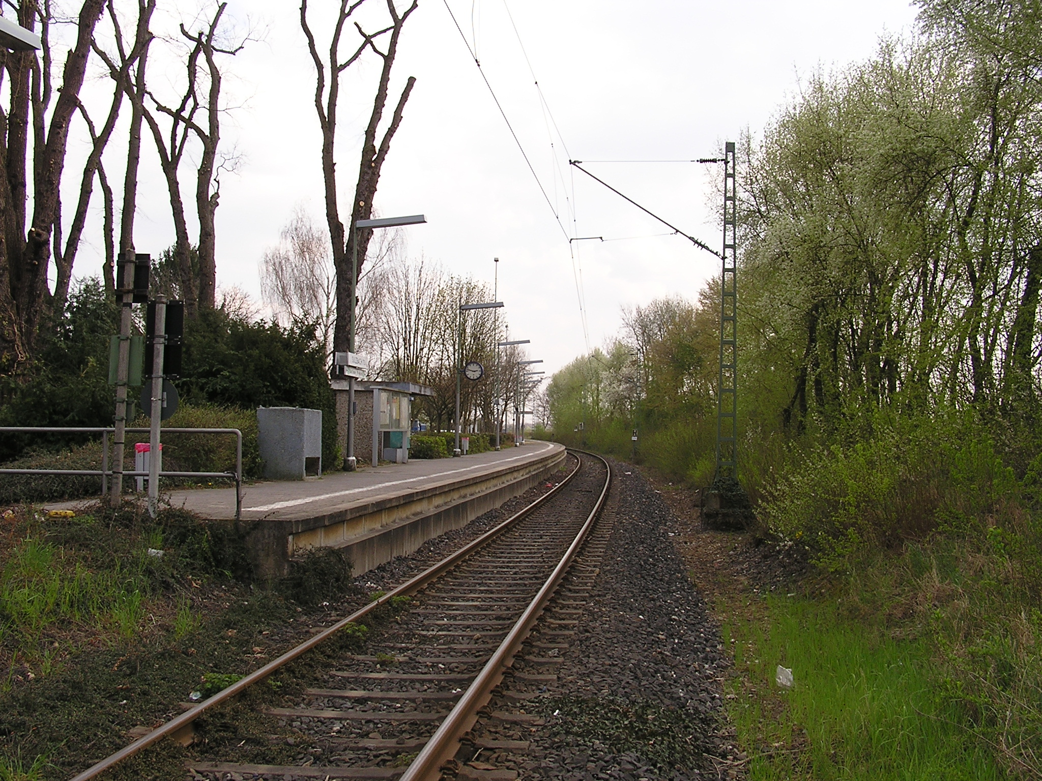 Stop Sulzbach at the Soderner Bahn